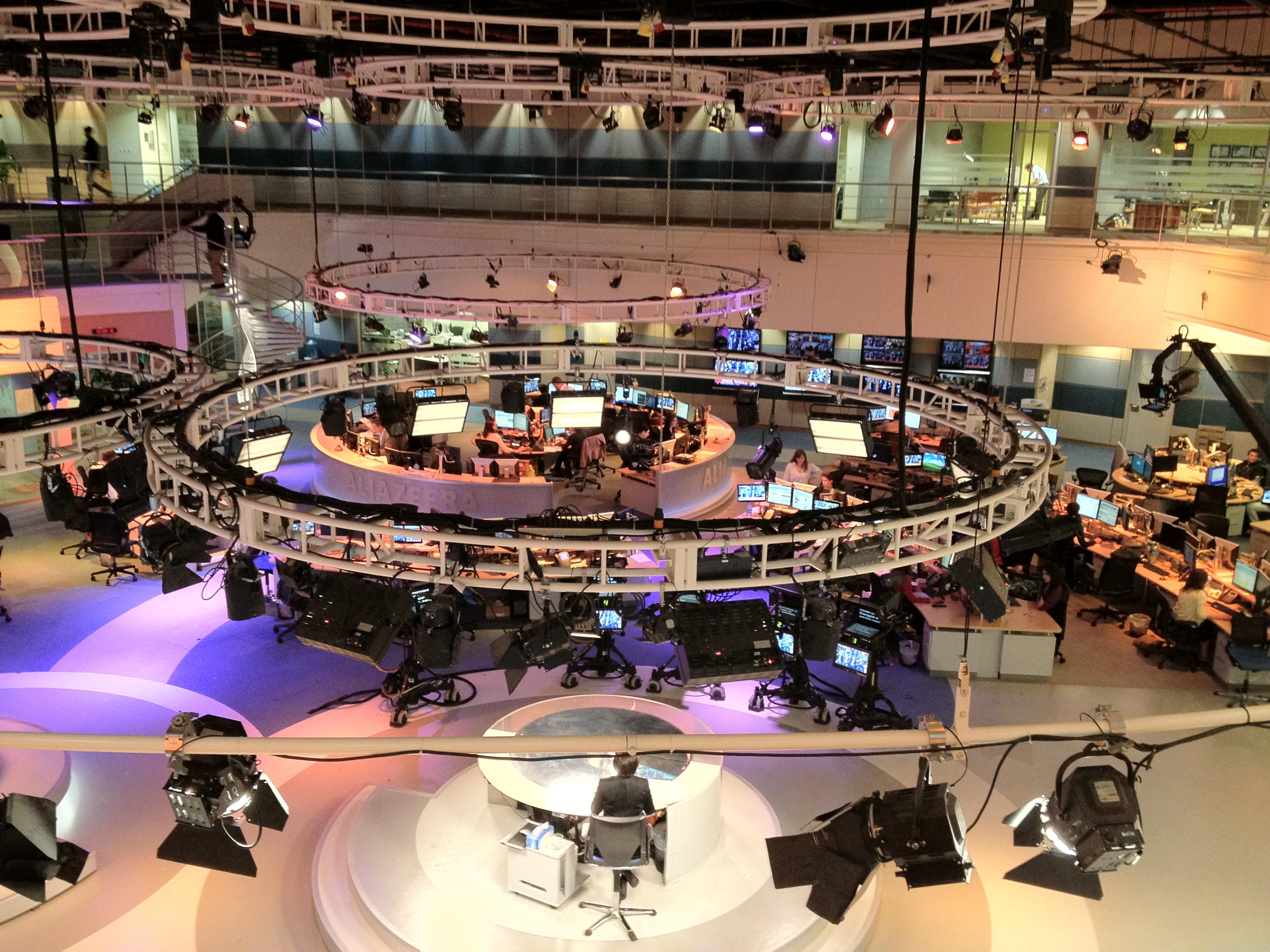 Photo from balcony overlooking main television studio from behind presenter's desk in the Doha headquarters.